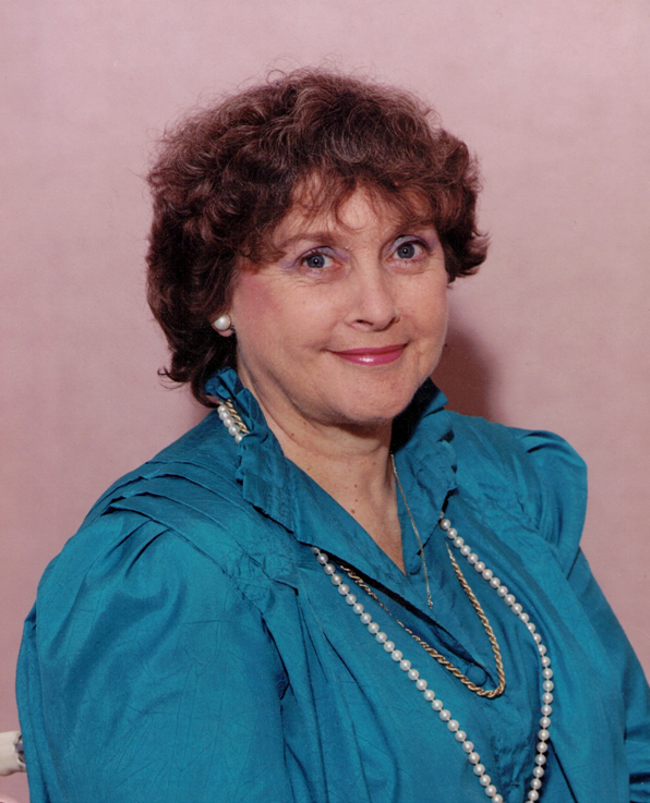 Barbara Worley was a key figure in the development of the disability sport movement in Australia in the 1980s